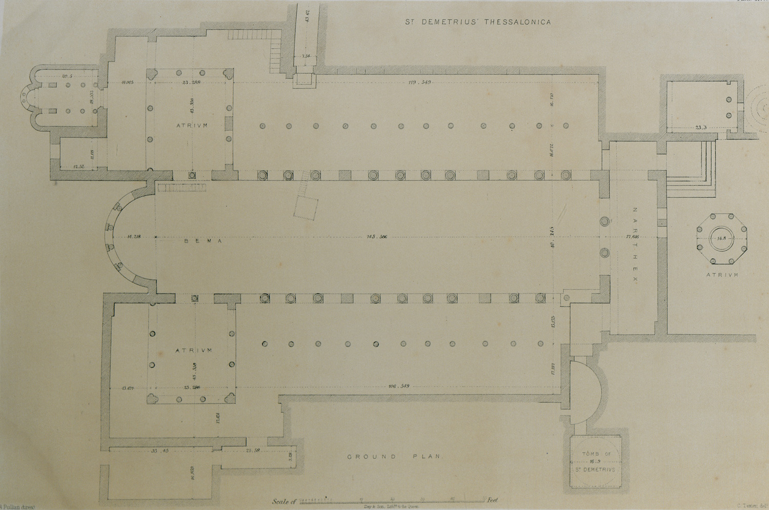 Félix Marie Charles Texier. Byzantine Arcitecture, illustrated by Examples of Edifices erected in the East during the earliest Ages of Christianity, R.Popplewell Pullan, London, Day & Son, 1864.